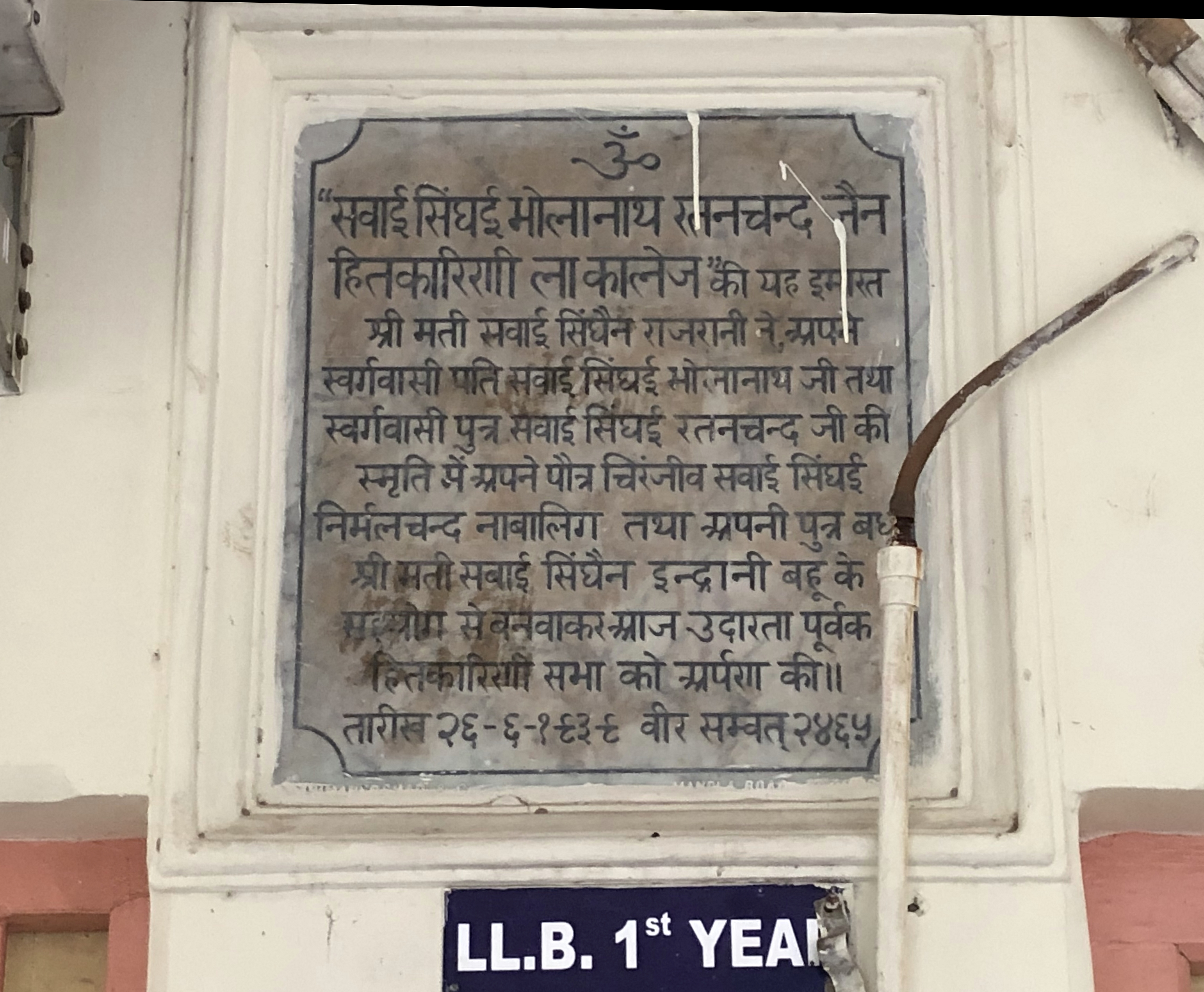 Hitakarini Law College JabalpurHitakarini Law College Jabalpur Dedication Dedication 1939 AD in memory of Sawai Singhi Bholanath and Ratanchand Jain